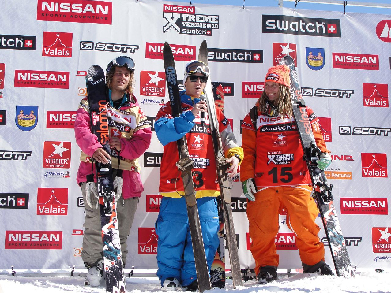 Winners of Freeride World Tour 2010 CANDIDE THOVEX (FRA), KAJ ZACKRISSON (SWE), HENRIK WINDSTEDT (SWE)